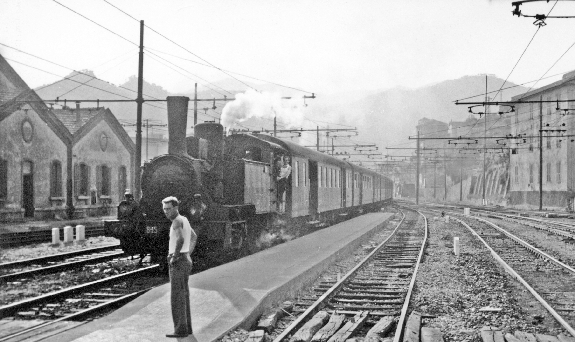 Ventimiglia Station (international border France/Italy), with FS 0-6-0T on pilot duty, view into France1960.